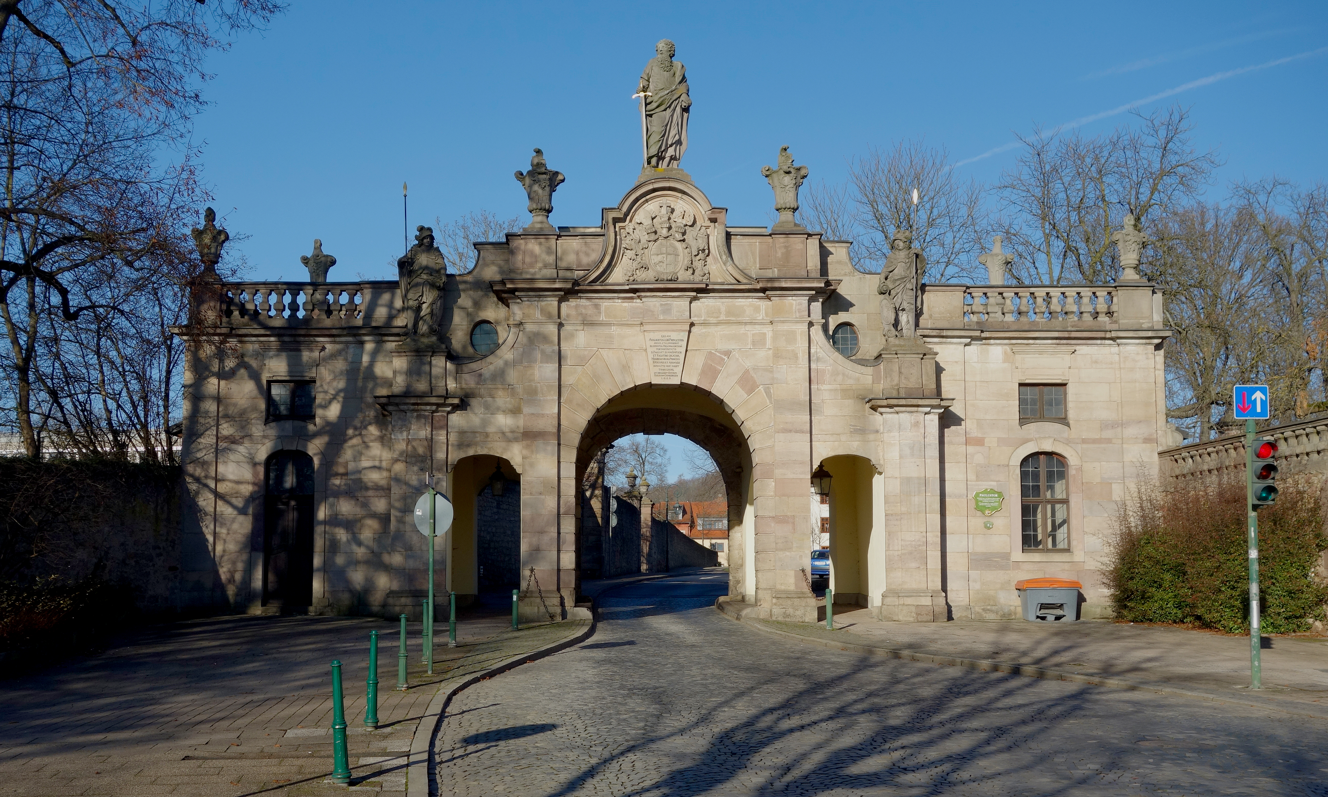 Paulstor in Fulda, Germany.